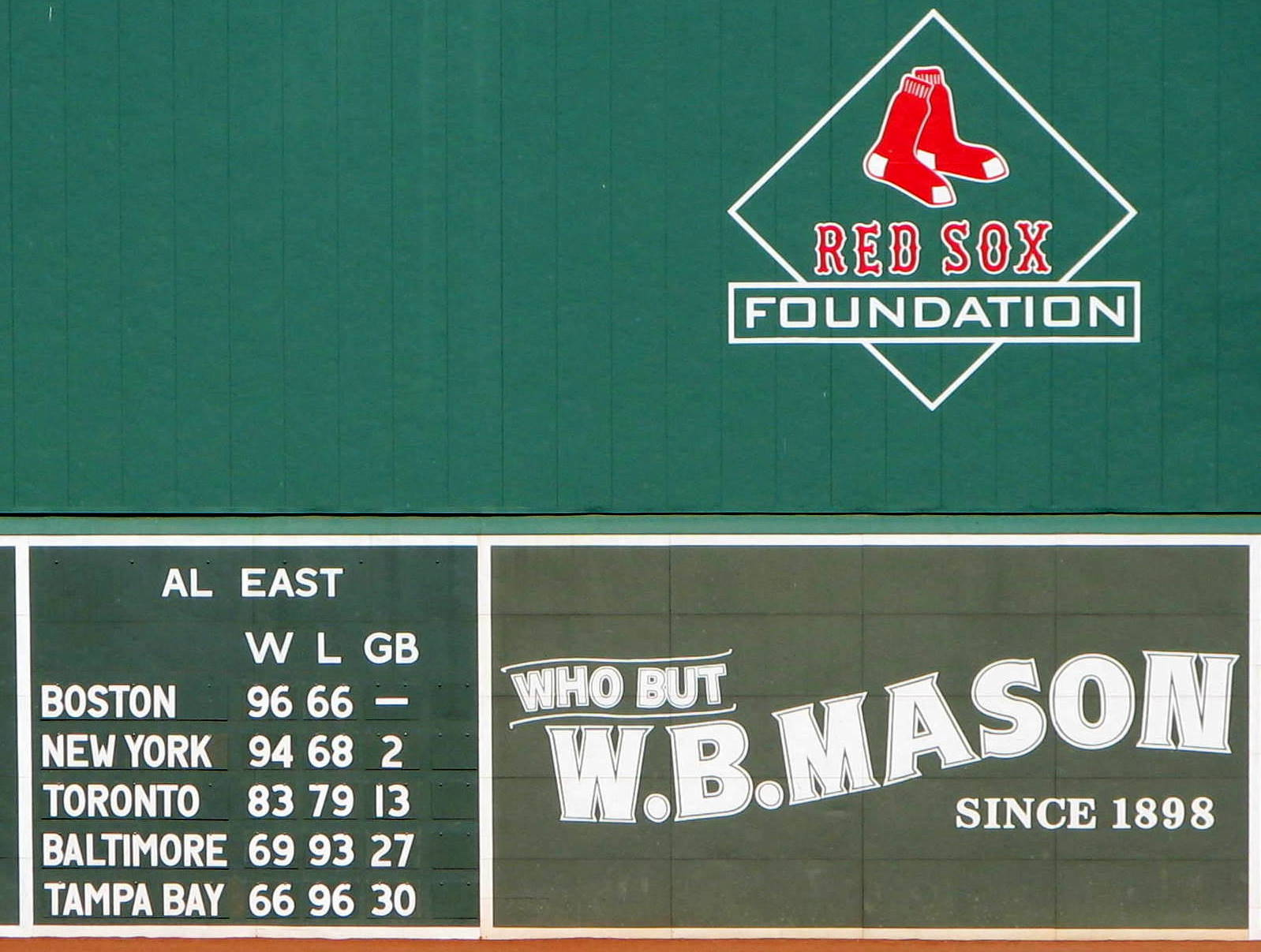 2007 MLB AL East final standings on Green Monster, Fenway Park, Boston